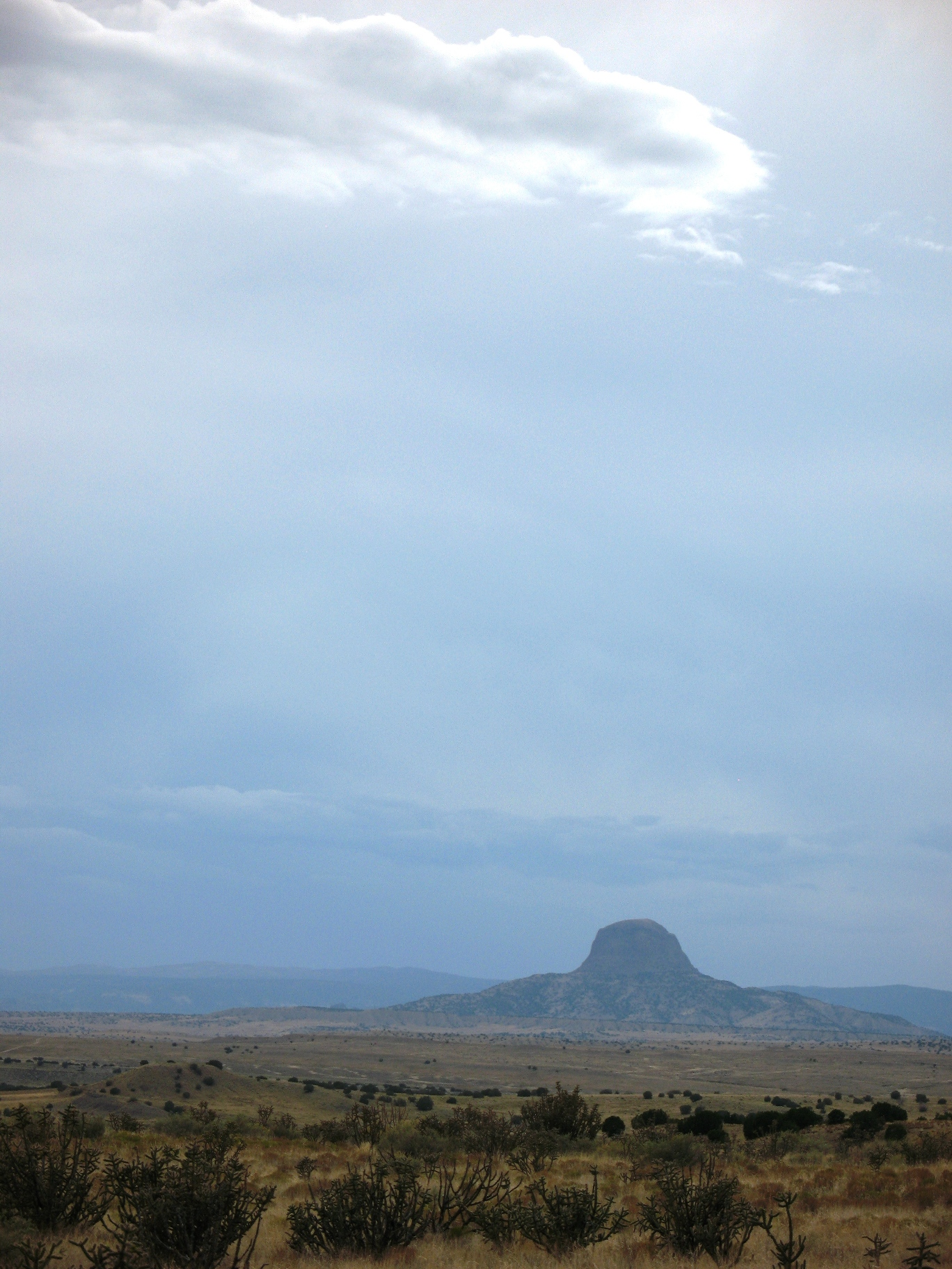 Cabezon Peak in northwestern New Mexico.